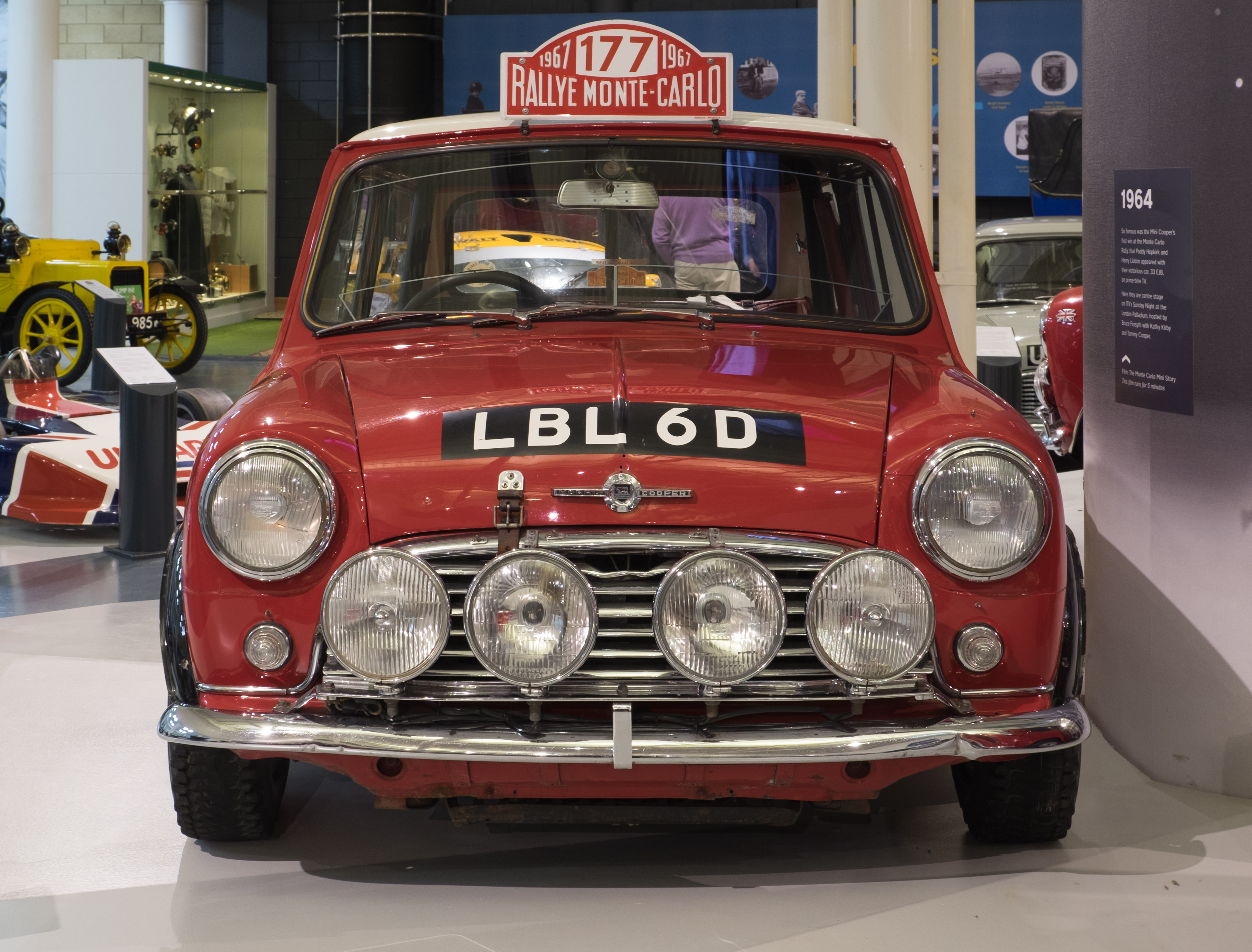 A 1966 Mini Cooper S. This car, which was one of the cars prepared by the BMC competitions department, won outright victory in the 1967 Monte Carlo Rally. It was crewed by Rauno Aaltonen and Henry Liddon. This vehicle is kept at the British Motor Museum, Gaydon, UK.